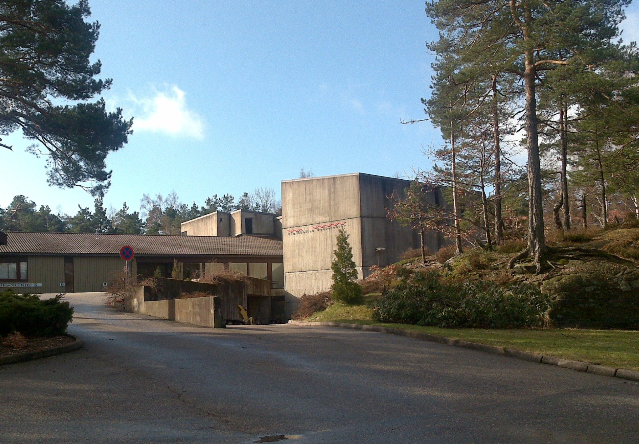 Mediehøgskolen Gimlekollen, a lutheran, private media-focused college in Kristiansand, Norway.